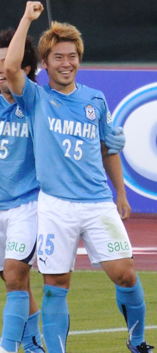 Ryohei Yamazak cropped from DSC_7742